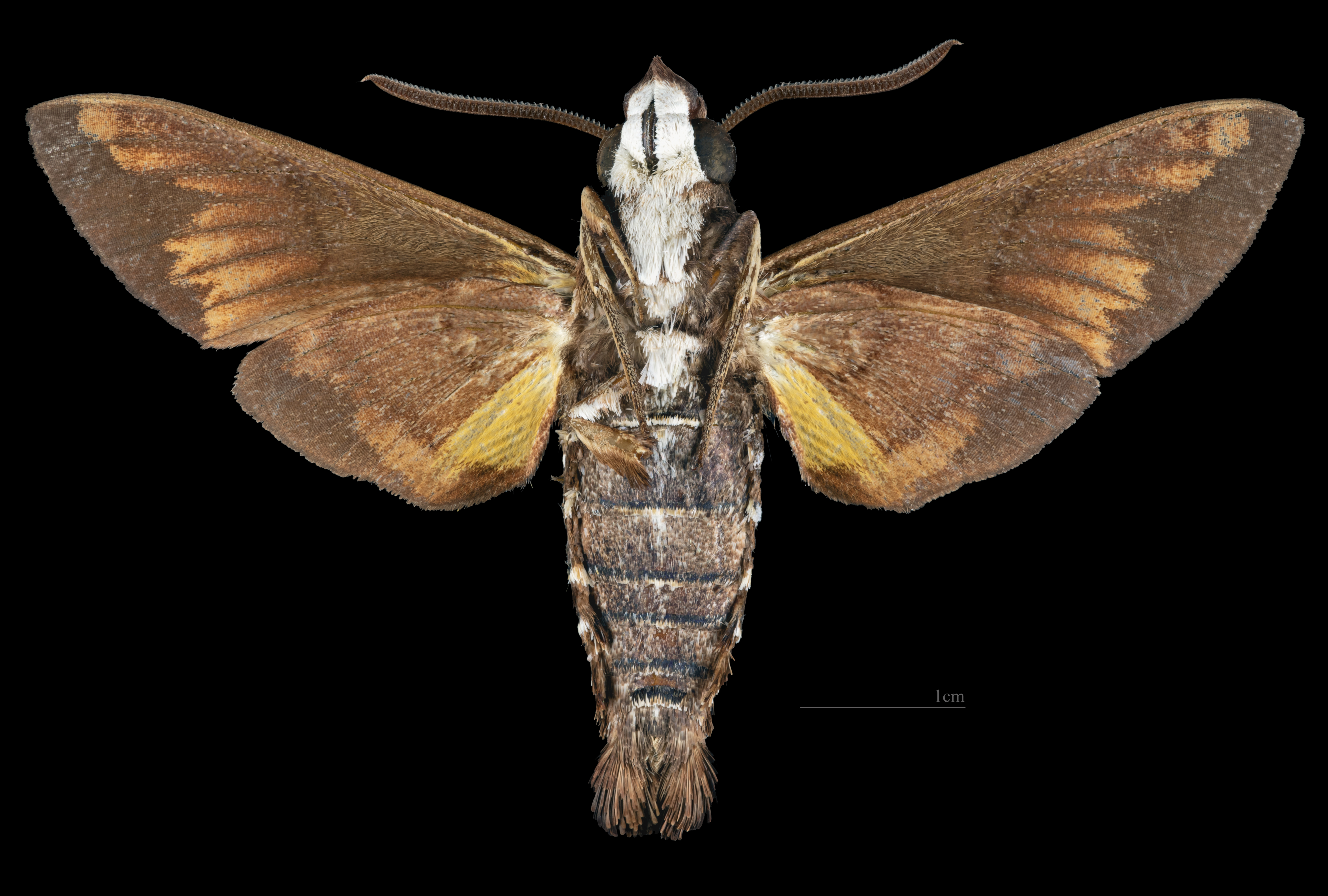 Macroglossum dohertyi - △ Ventral side Collection of the Mathematician Laurent Schwartz